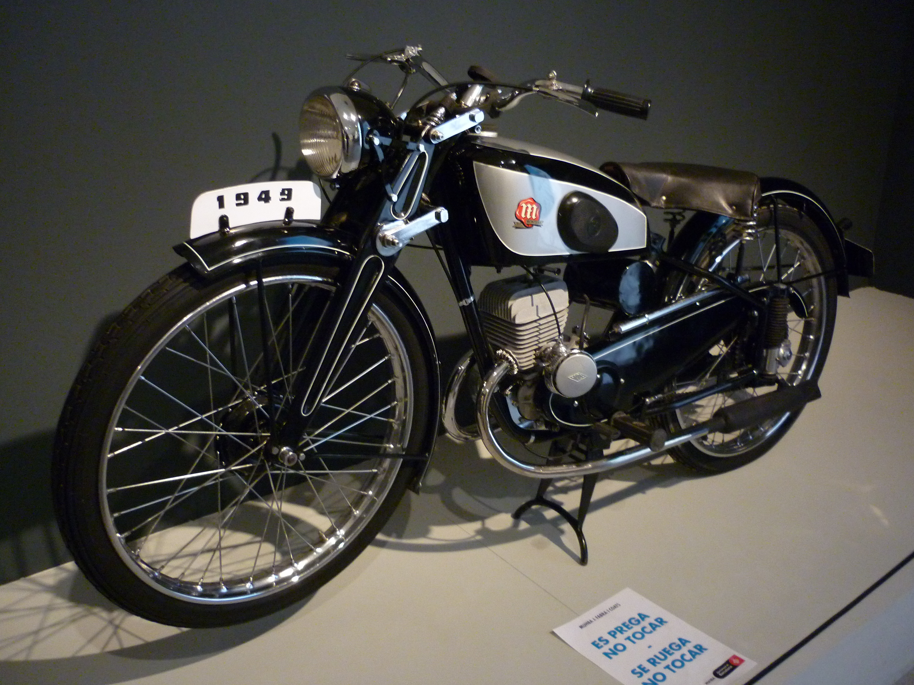 Montesa B-46/49 125cc (1949)